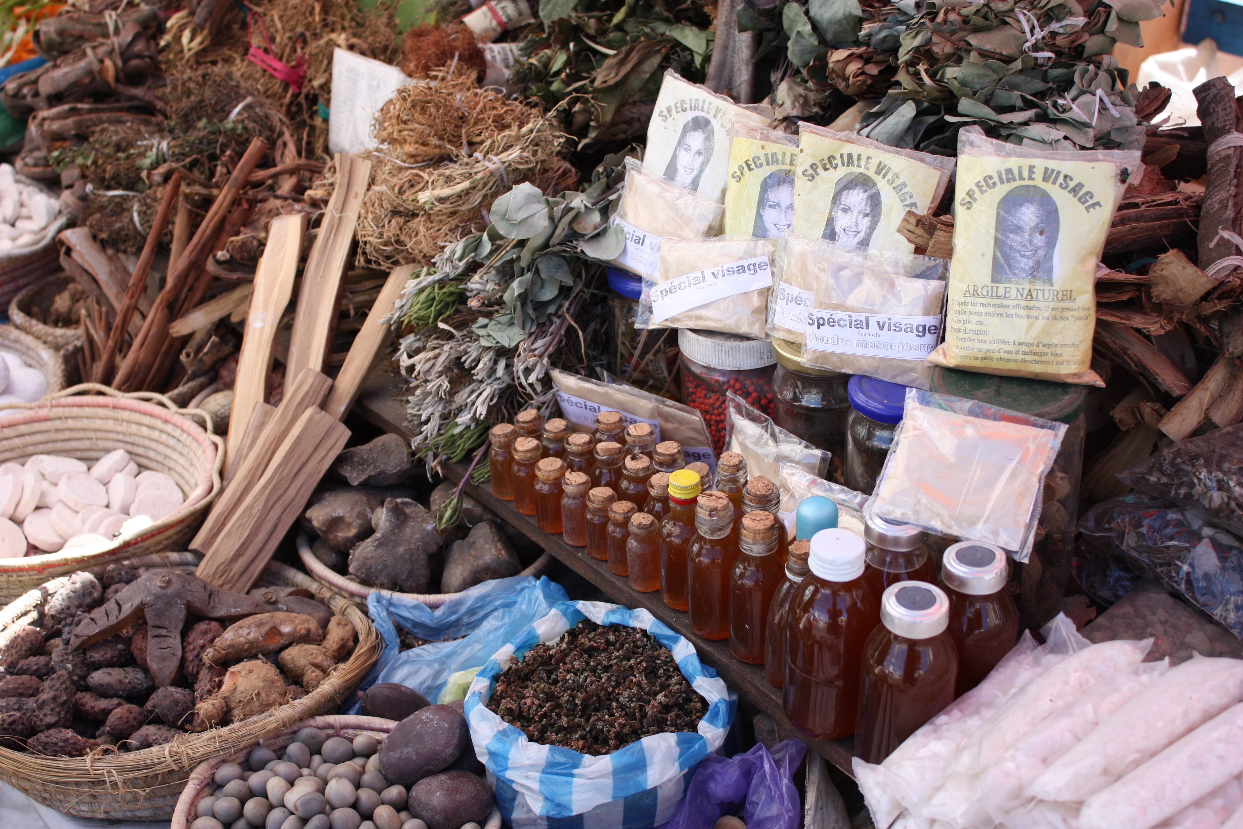 medicinal plants on a market in Antananarivo, Madagascar